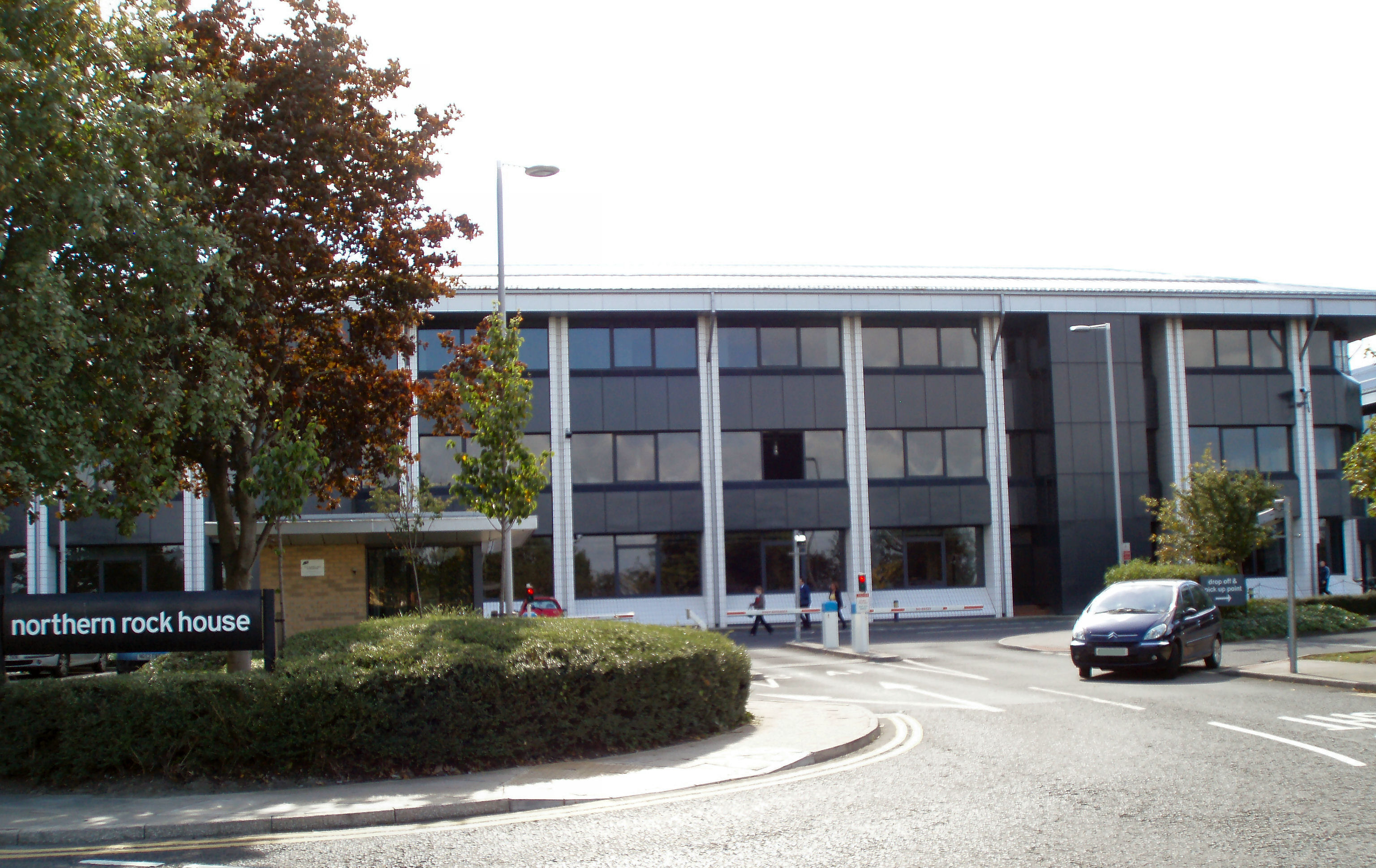 A photograph of part of Northern Rocks HQ. The 1990s Office blocks are shown. At Regent Centre, in Gosforth, Newcastle upon Tyne, England (September 2007)